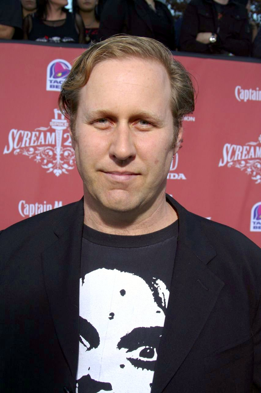 Canadian director Roger Avary at the 2007 Scream Awards.